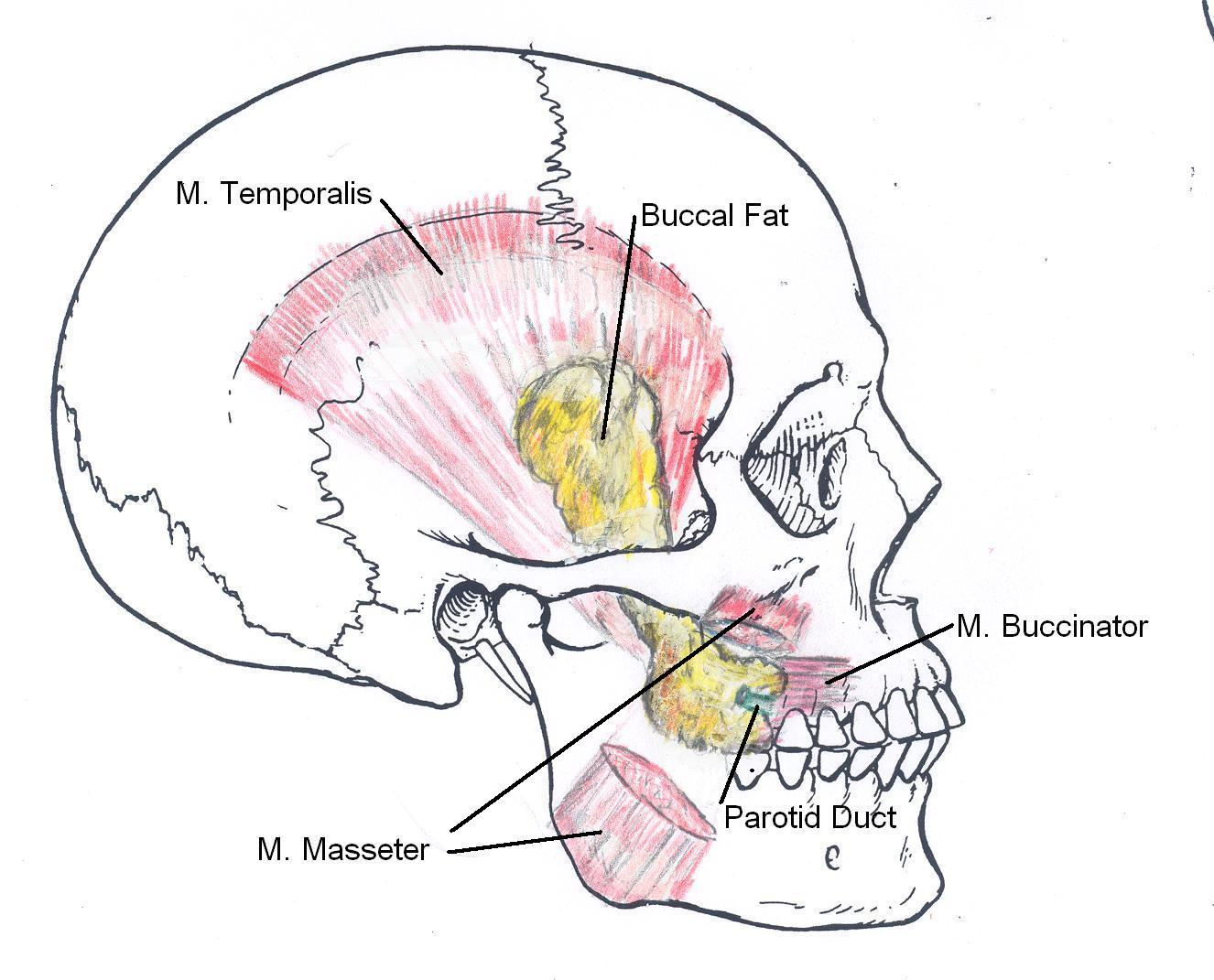 Location of buccal fat pad on human skull